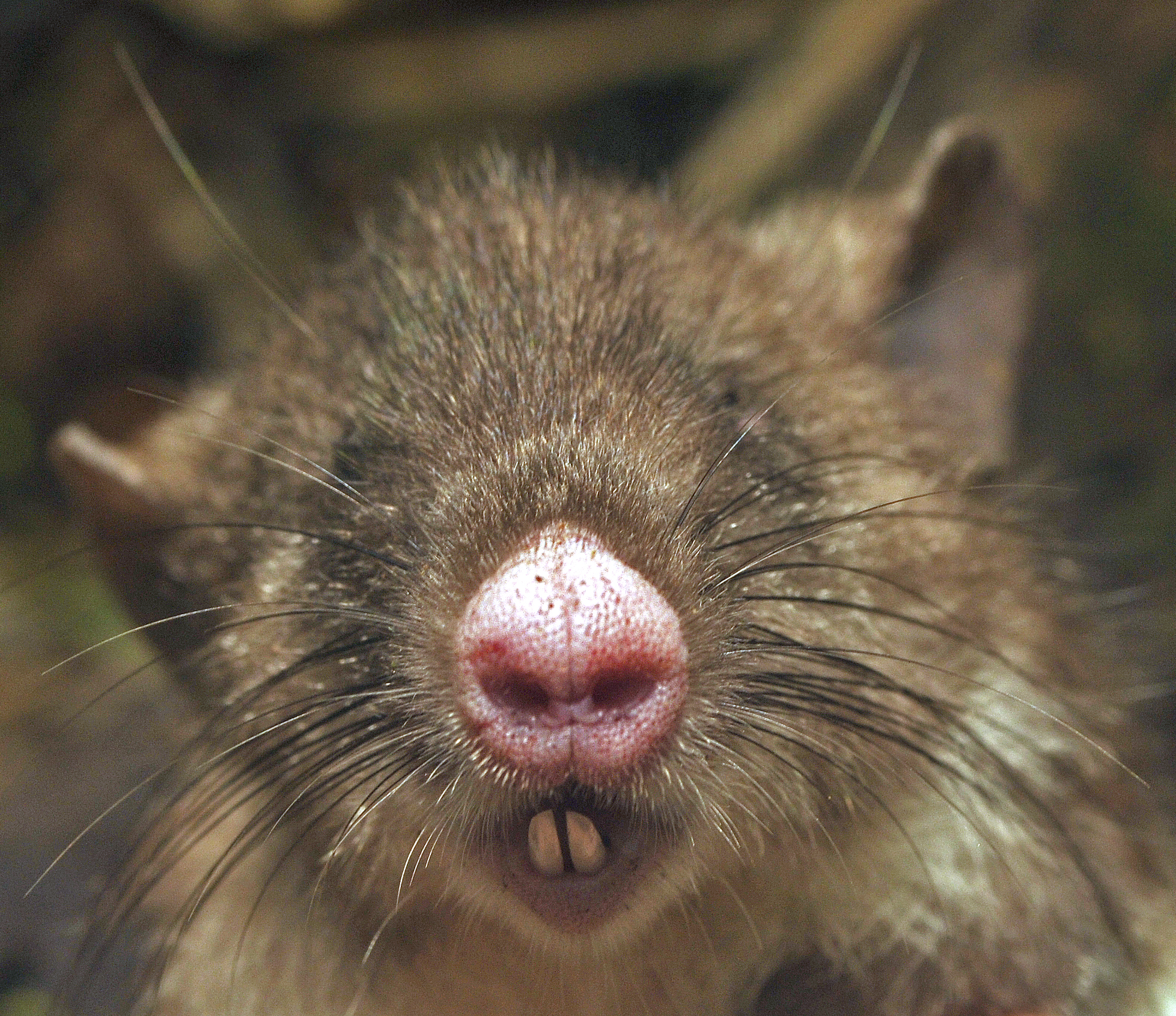 Hyorhinomys stuempkei, MZB 37001, the Sulawesi snouter.